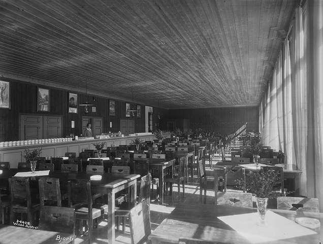 The restaurant at Bjorli Station of the Rauma Line in Lesja, Norway